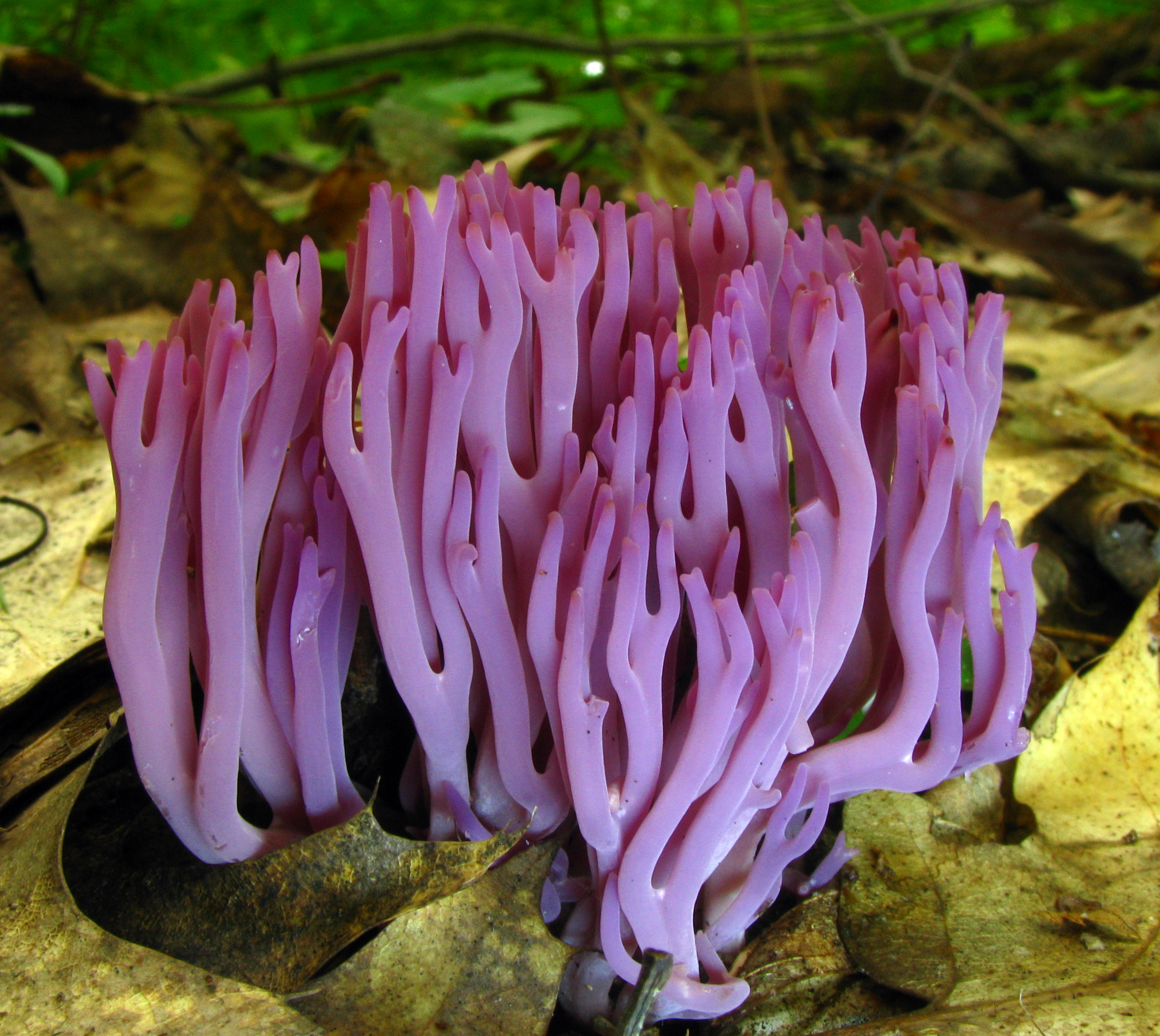 The coral fungus Clavaria zollingeri Lév. Specimen photographed in Babcock State Park, Fayette Co., West Virginia, USA. Česky: Houba Kuřátko Zollingerovo (Clavaria zollingeri) z řádu lupenotvarých. Fotografie pořízena v Babcock State Park v americké Západní Virgínii, houba se velmi vzácně vyskytuje i v České republice.